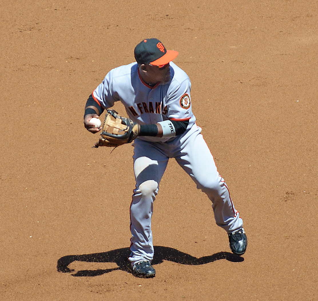 Juan Uribe with San Francisco Giants in 2010.